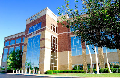 Wright-Patt Credit Union headquarters in Beavercreek, Ohio